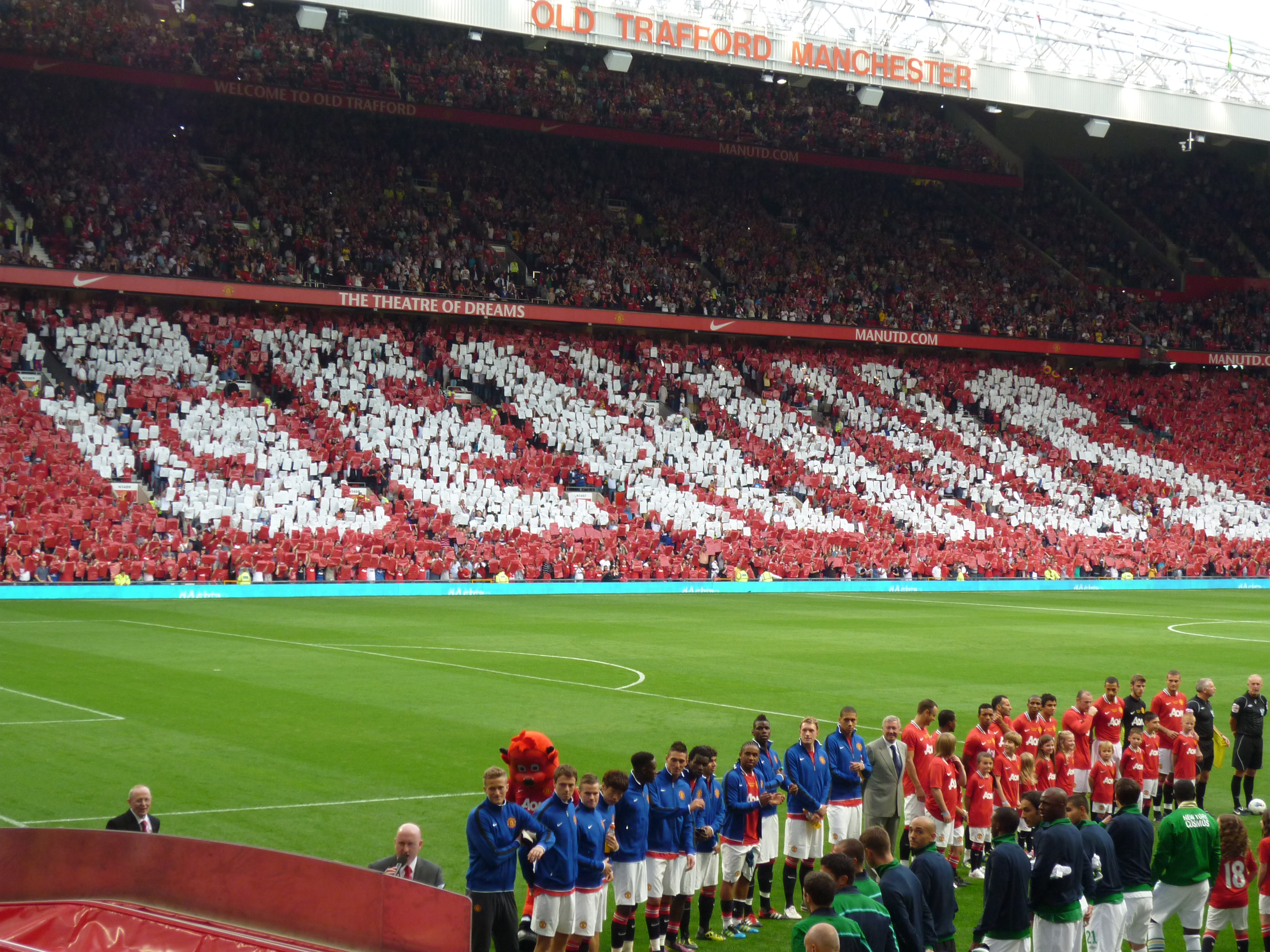 Paul Scholes' testimonial match. To aid description of the article "testimonial match"